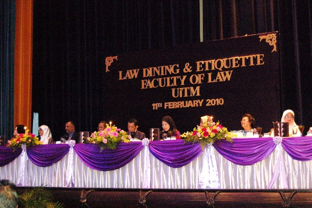 Law Dining Etiquette